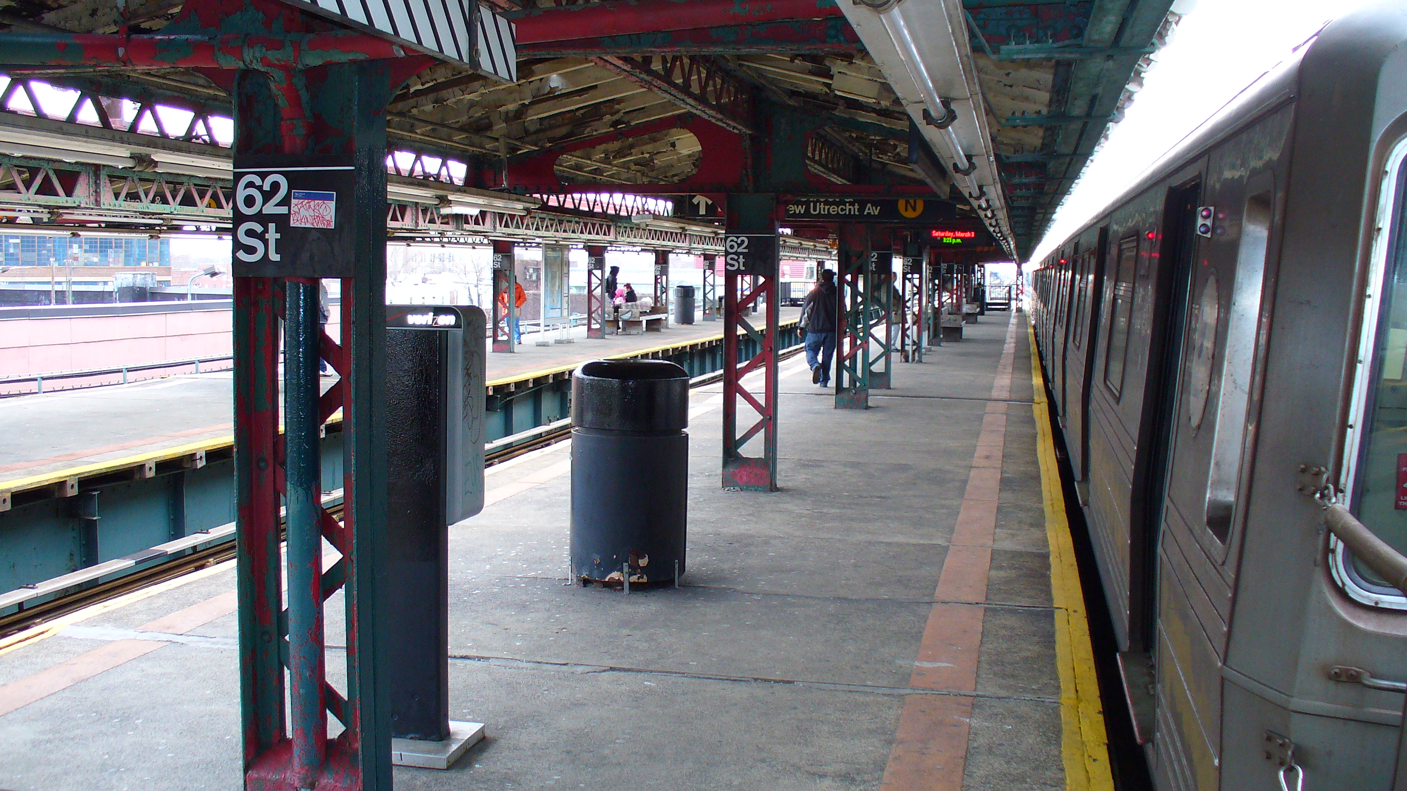 62nd Street R68 D Line NYC Subway Station by David Shankbone